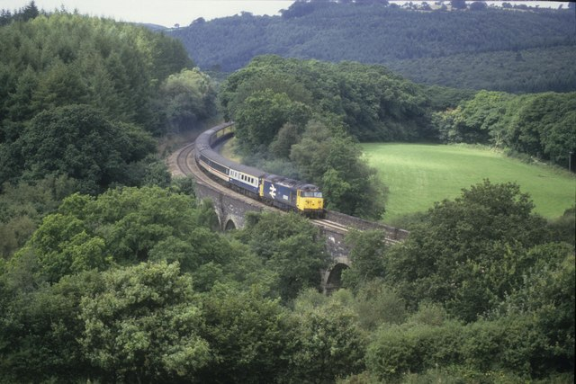 Morning express crossing Penadlake viaduct, 3 km from Mount, Cornwall, Great Britain. A view no longer available as the trees in the foreground have grown to obscure the view. Class 50, 50043 heads a morning service over the viaduct. Taken from up high in the field above the valley.